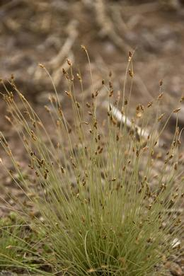 Neglected tuft sedge, Bulbostylis neglecta, in flower